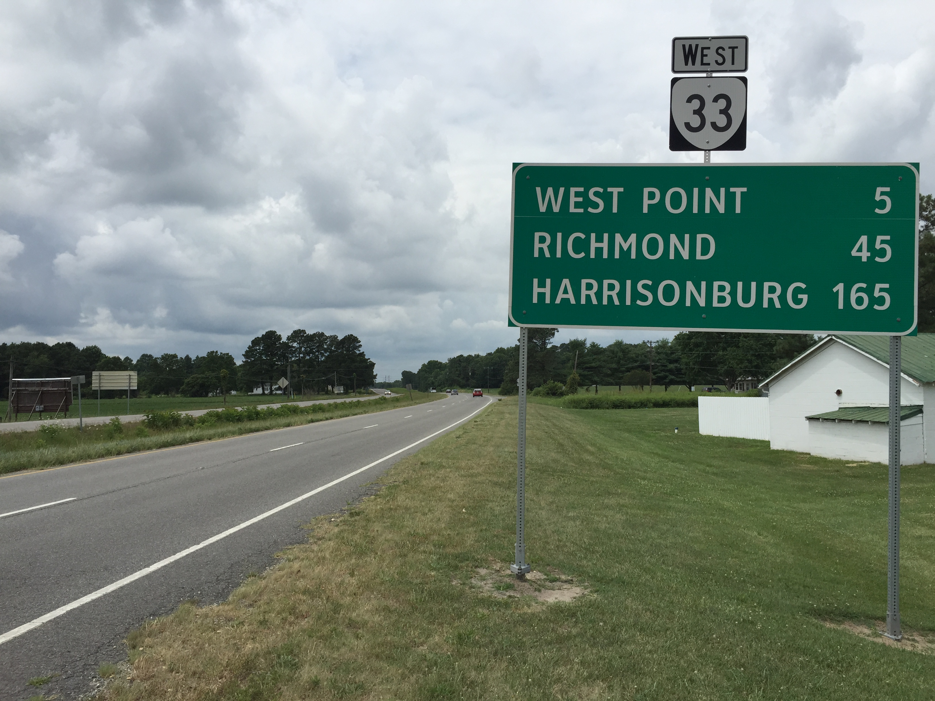 View west along Virginia State Route 33 (Lewis B Puller Memorial Highway) at Virginia State Route 14 (The Trail) in Shacklefords, King and Queen County, Virginia